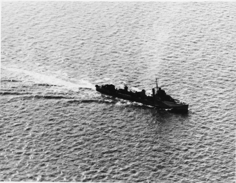 HMS Vivacious Underway.